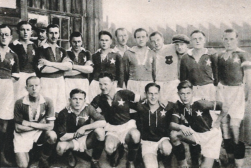 TS Wisła Kraków - polish football champion 1927/28